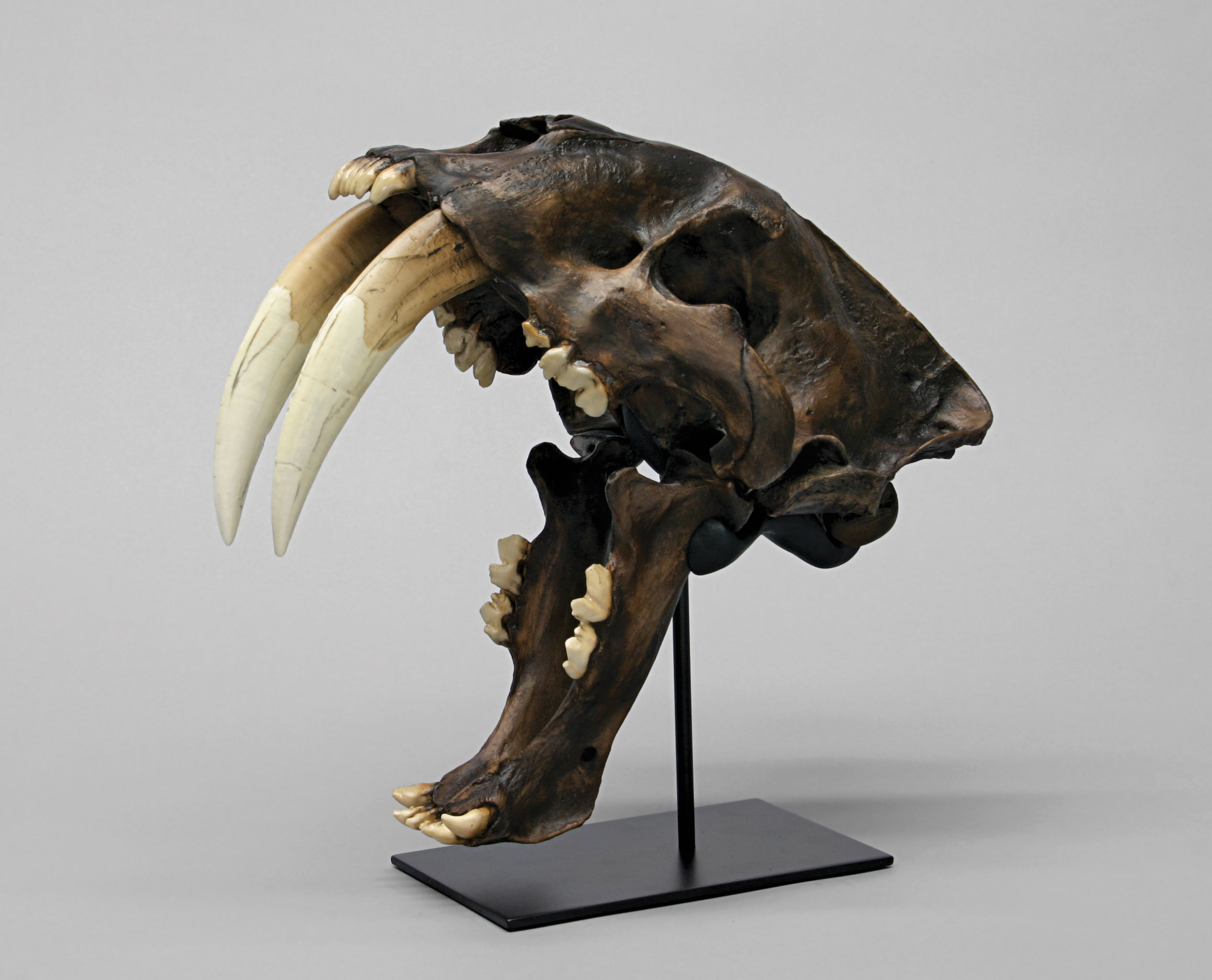 Bone Clones image of Saber-toothed Cat